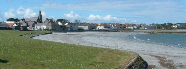 Ballywalter.